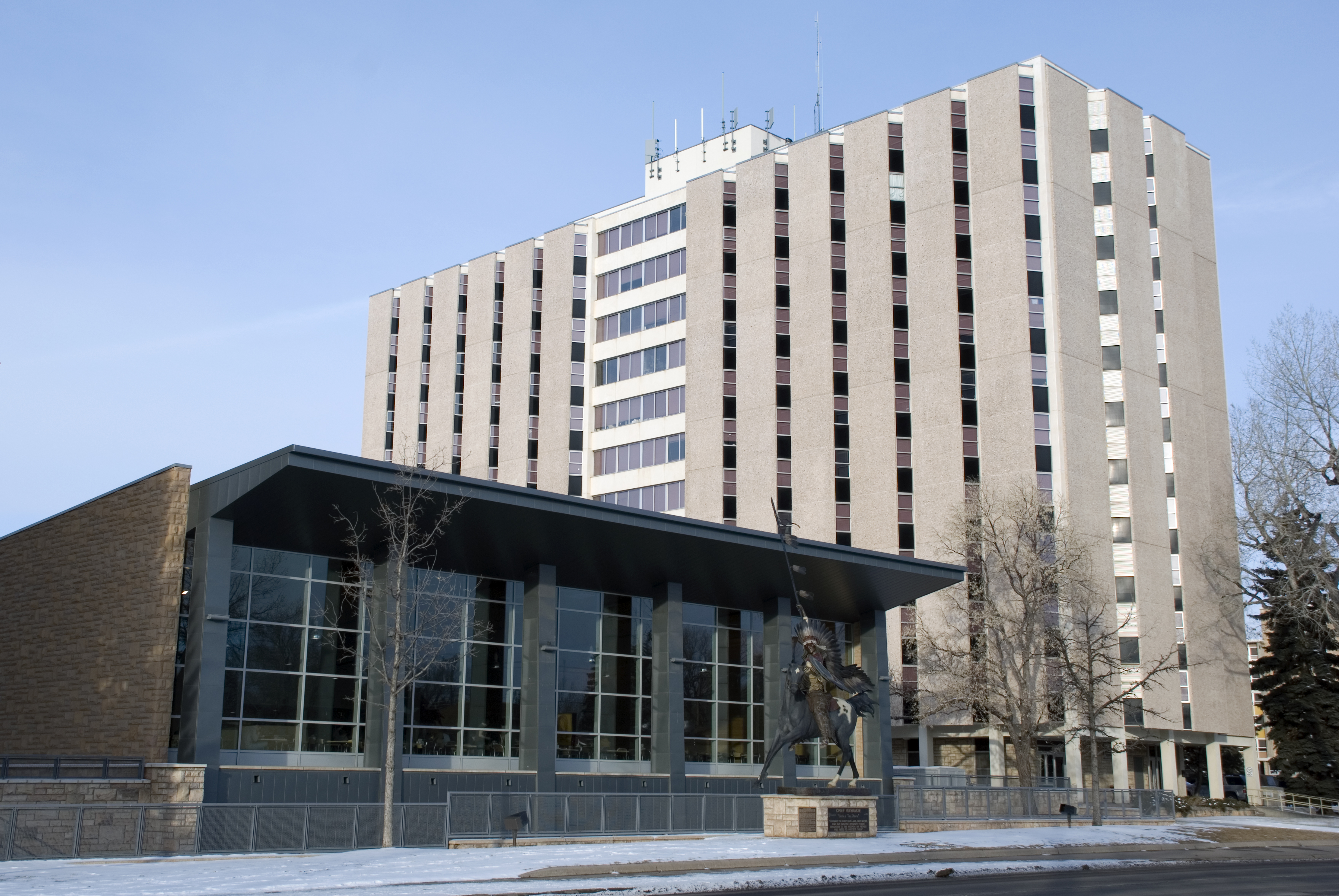 Washakie Dining Center and McIntyre Hall at the University of Wyoming, as seen from Grand Avenue